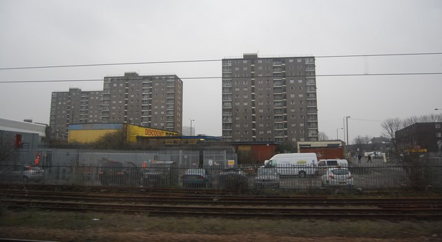 Towerblocks, Doncaster